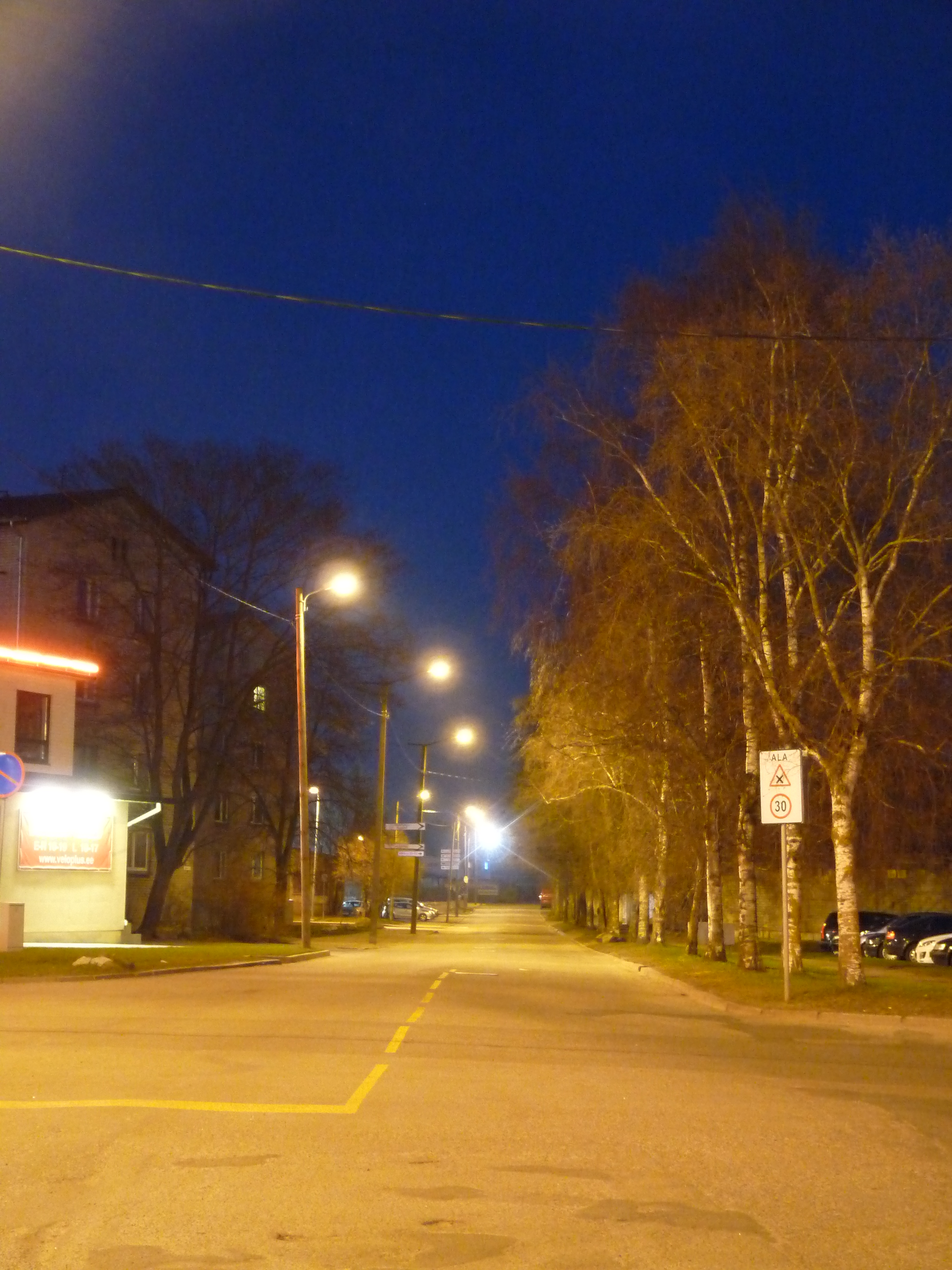 Saku street in Tallinn, Estonia